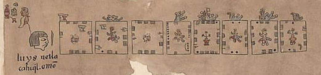 Edaphologycal Aztec glyphs Aztec Metric System Codex Humboldt detail Fragment VIII 1500- 1600